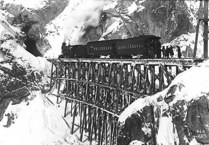 First train to White Pass on the first stage of the White Pass and Yukon Route railway, February 1899. The railway was build for the Klondike gold rush, but came to late for the height of the migration. (Apparently the train has stopped for the photo, notice the people behind it.)